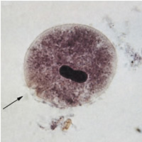 Balantidium Coli trophozoite. It's from the US government (CDC) so it's cool to use. Balantidium trophB.JPG